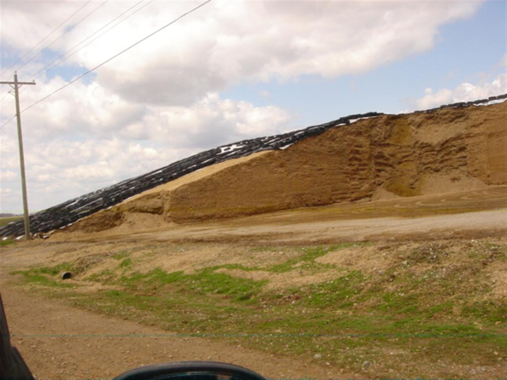 This is a photo of silage, stored under white plastic tarp, held down by used tires. Feldpausch Farms, Michigan, USA